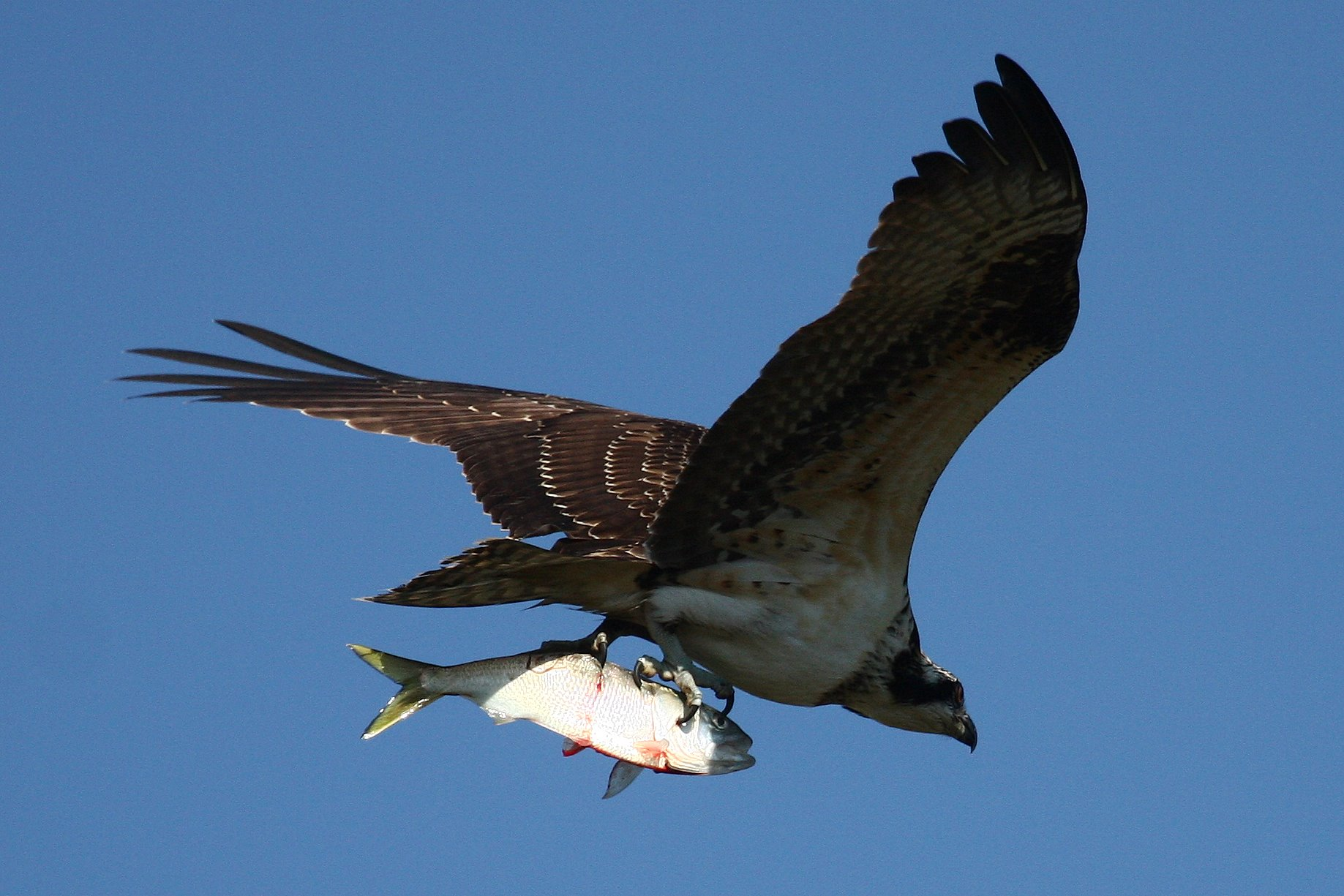 Osprey (Pandion haliaetus)